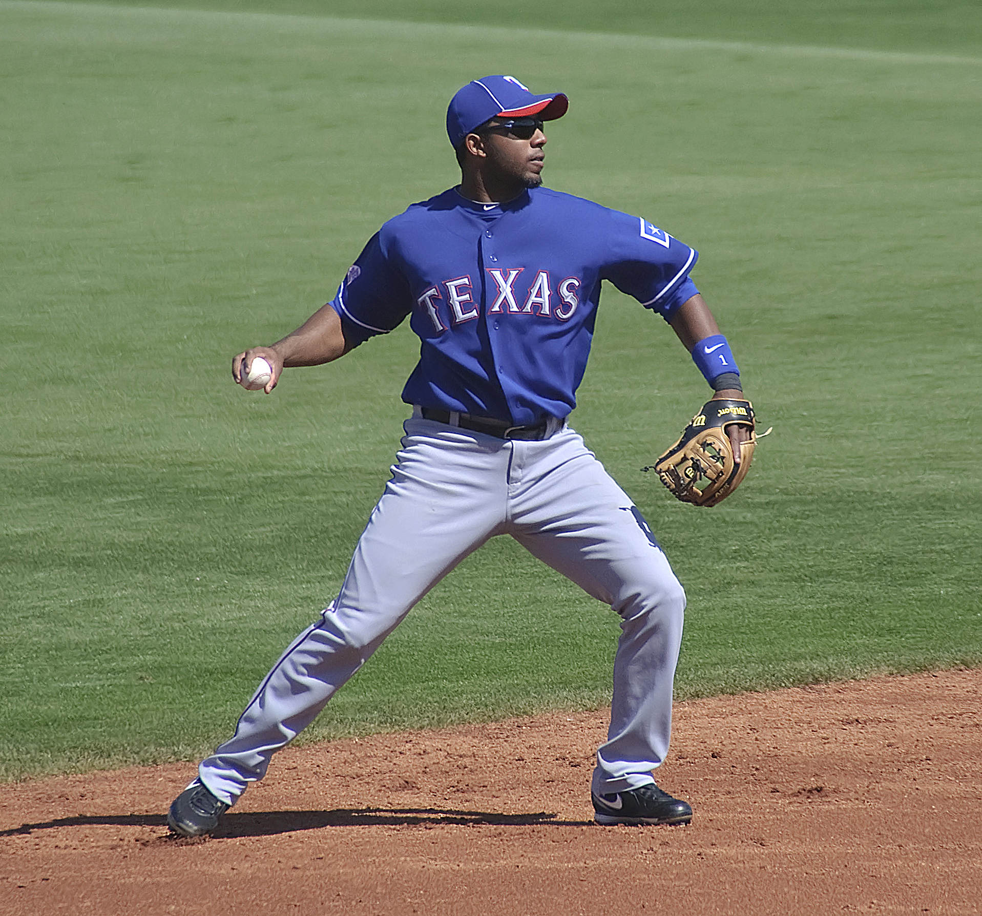 Elvis Andrus, baseball shortstop for the Texas Rangers.